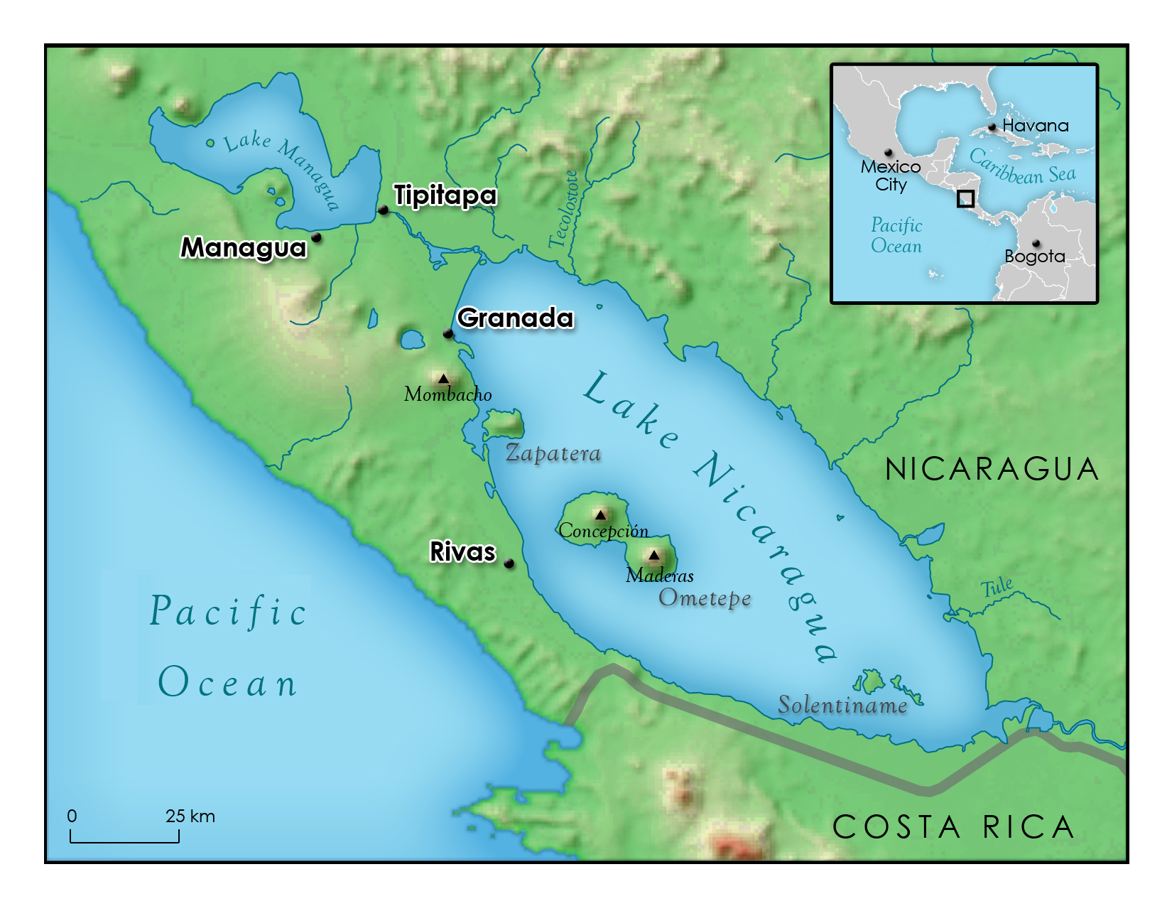 Map of Lake Nicaragua and its vicinity